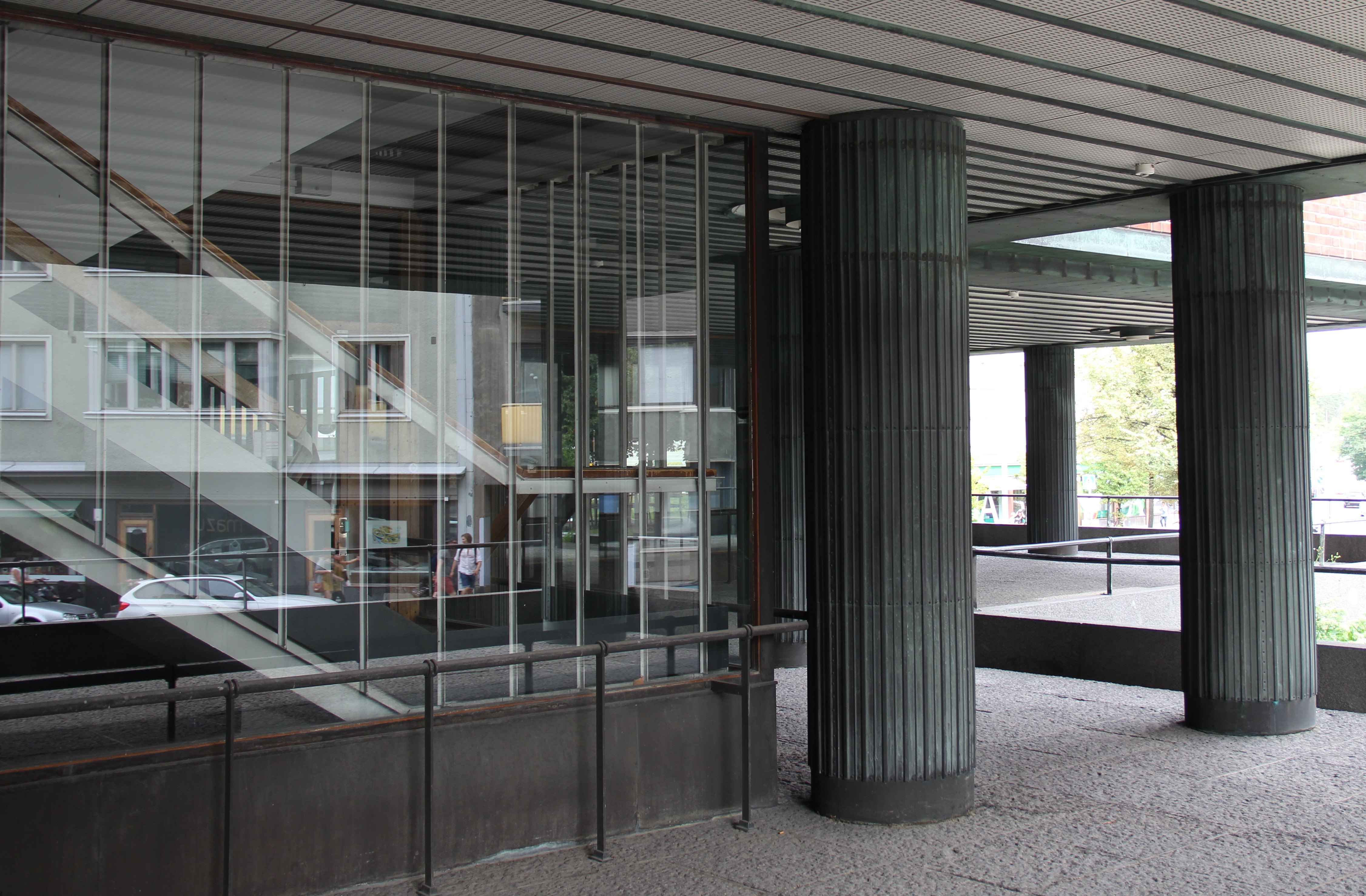 Kansaneläkelaitos headquarters, Taka-Töölö, Helsinki, Finland. Designed by Alvar Aalto, completed in 1956. - Terrace columns, staircase behind the window.